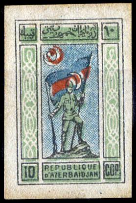 Stamp of Azerbaijan Democratic Republic. 10 kop.